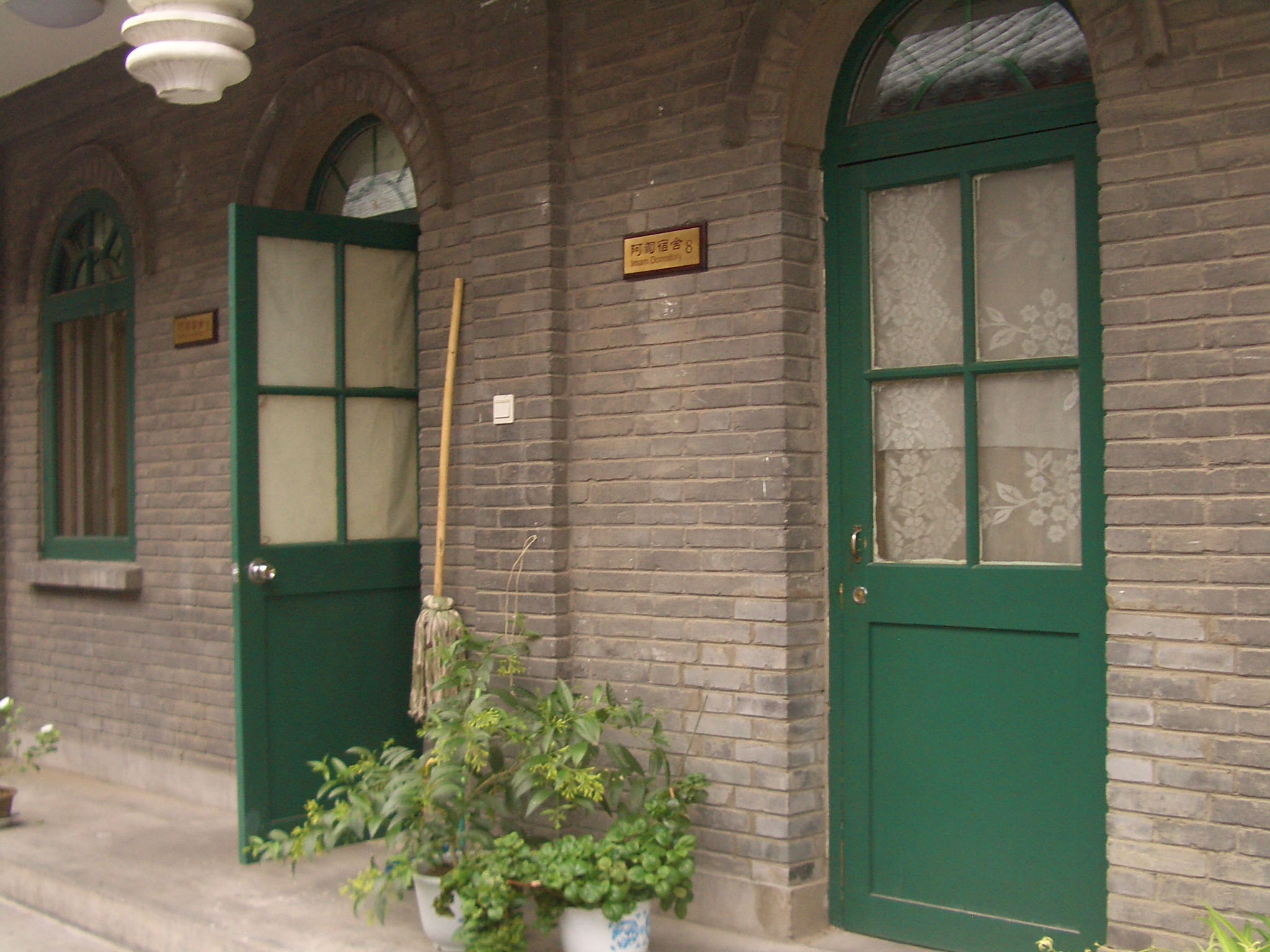 Niujie Mosque, Beijing